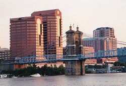 Picture of Covington KY. Taken by uploader, all rights released.